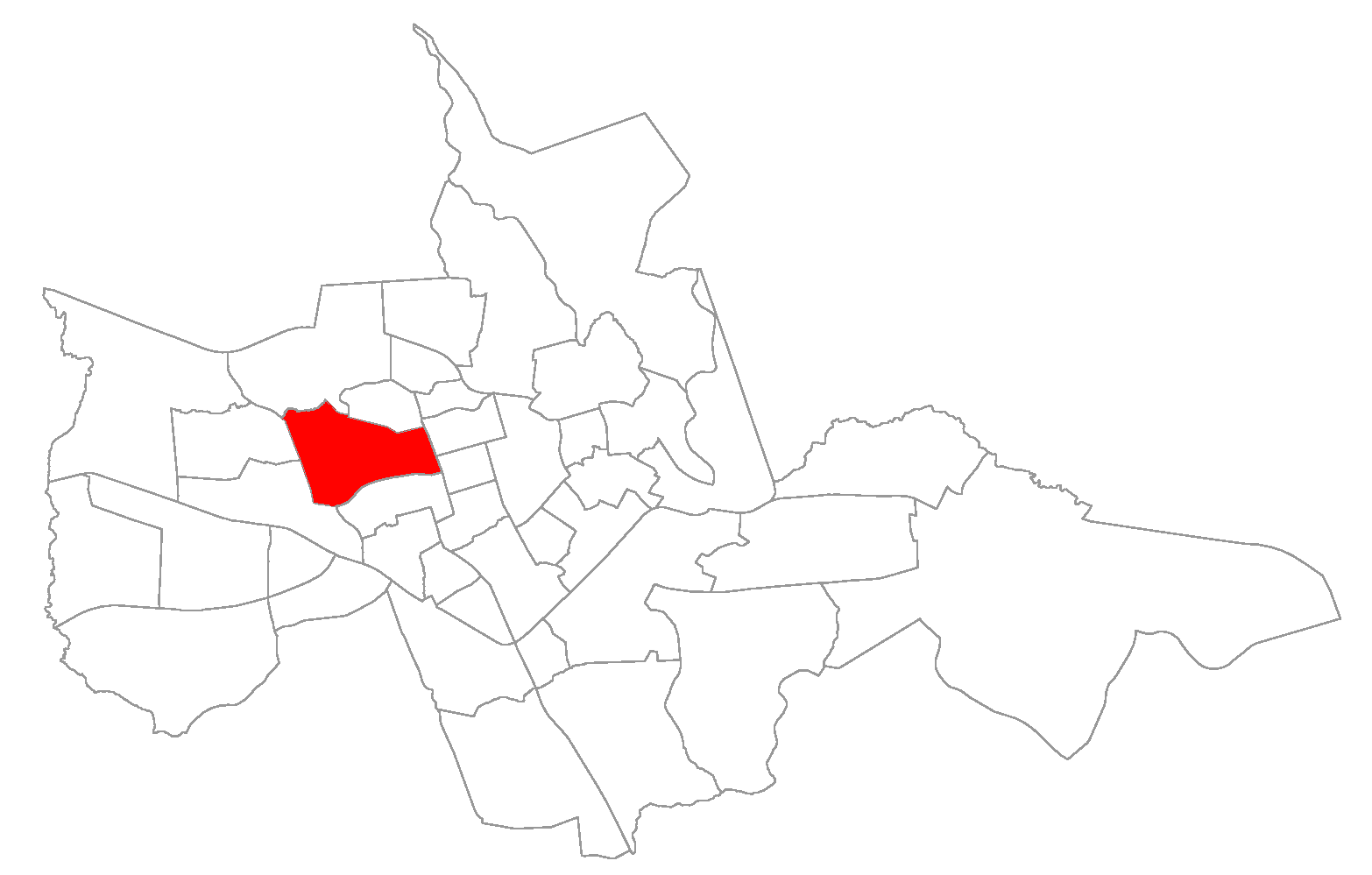 neighborhood/district of Santa Maria, Rio Grande do Sul